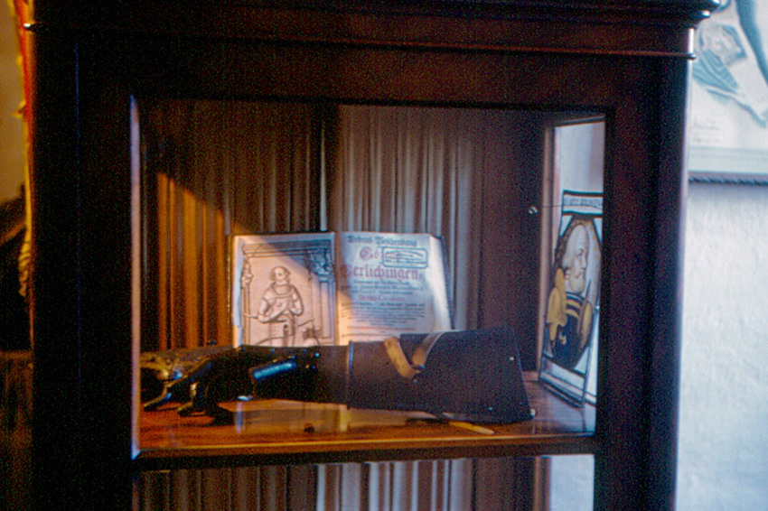 Burg Jagsthausen was once home to the celebrated knight Götz von Berlichingen (1480–1562). He lost his right arm in battle at the age of 24, and had this artificial arm made. The book in the display case may be Goethe's play, Götz von Berlichingen.